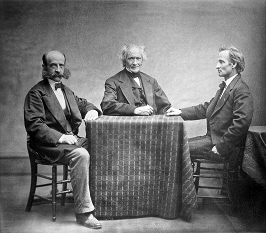 Picture of Alvan Clark (center), and his sons, Alvan Graham Clark and George Bassett Clark